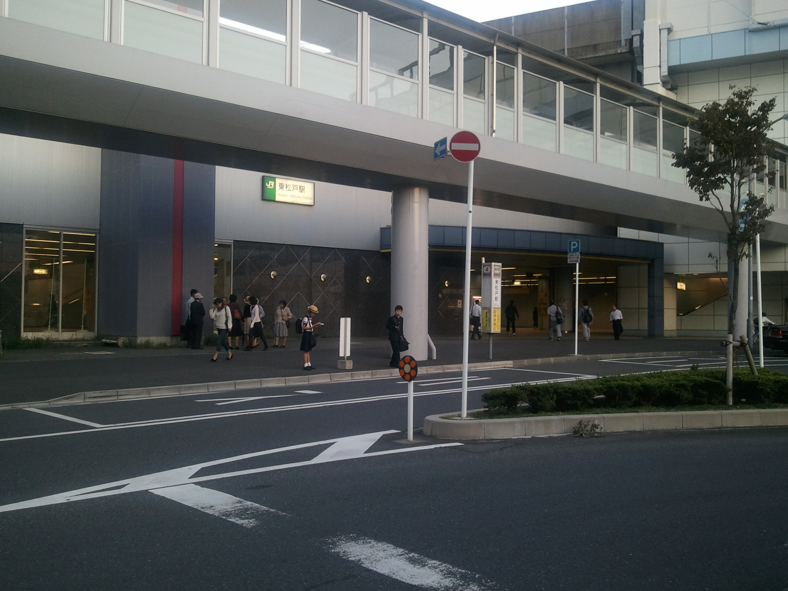 West side of Higashi-Matsudo Station on the Musashino Line